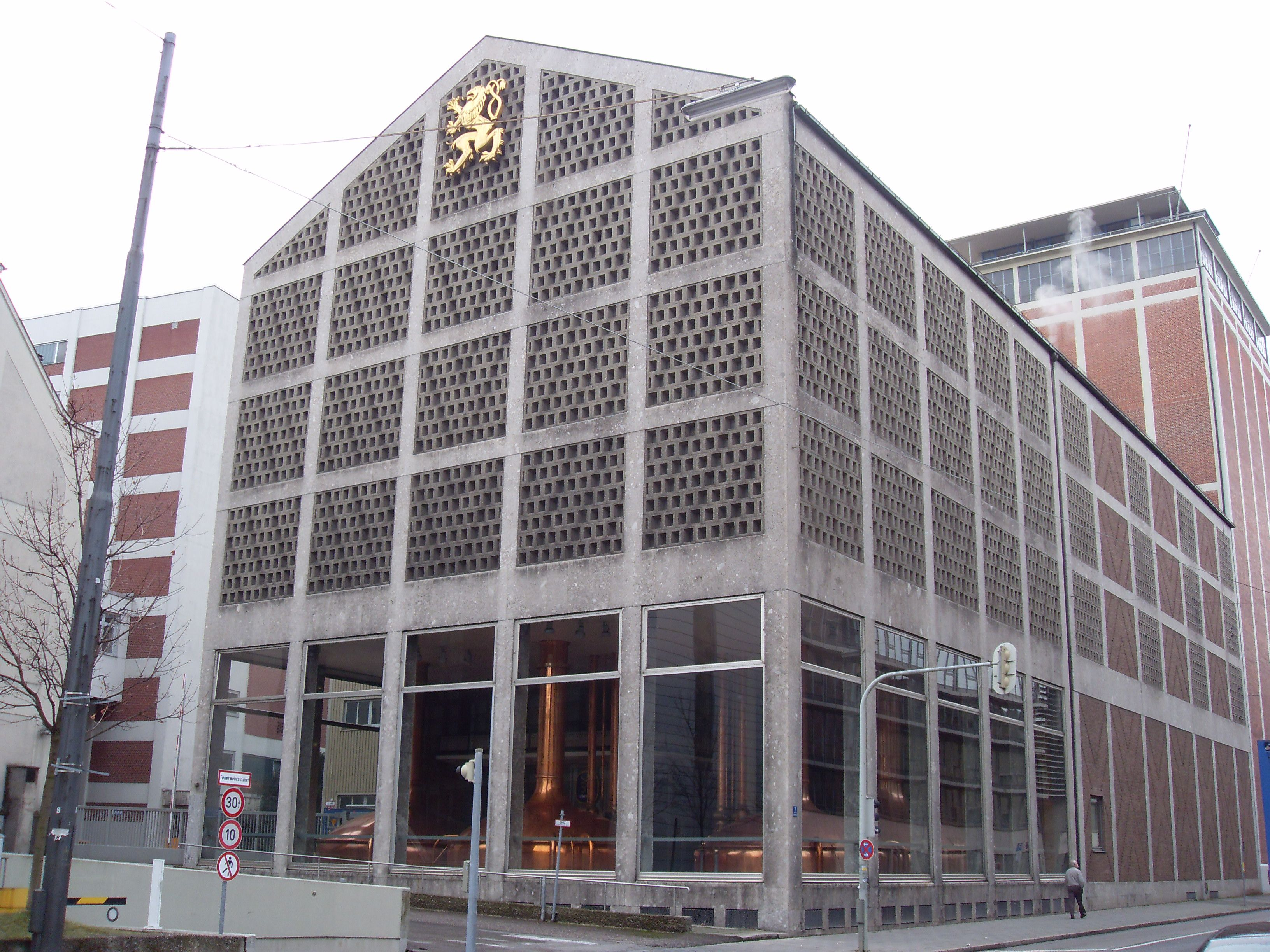 The Löwenbräu brewery in the Nymphenburger and Sandstraße in Munich, Dez. 2009